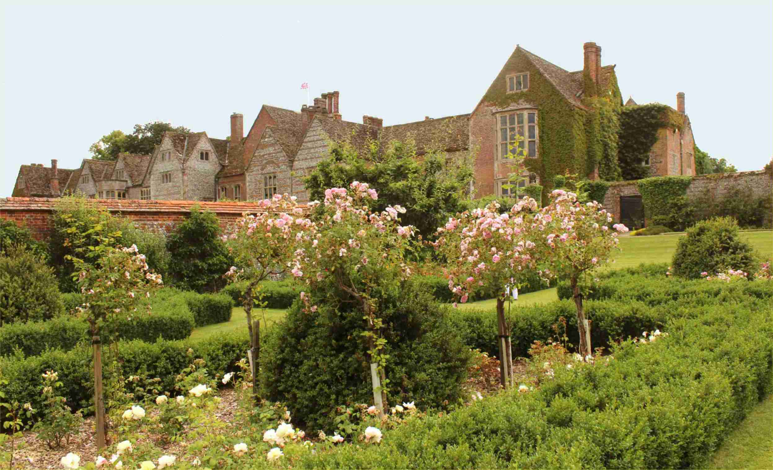 Littlecote house from the north with avenue of trees and pond